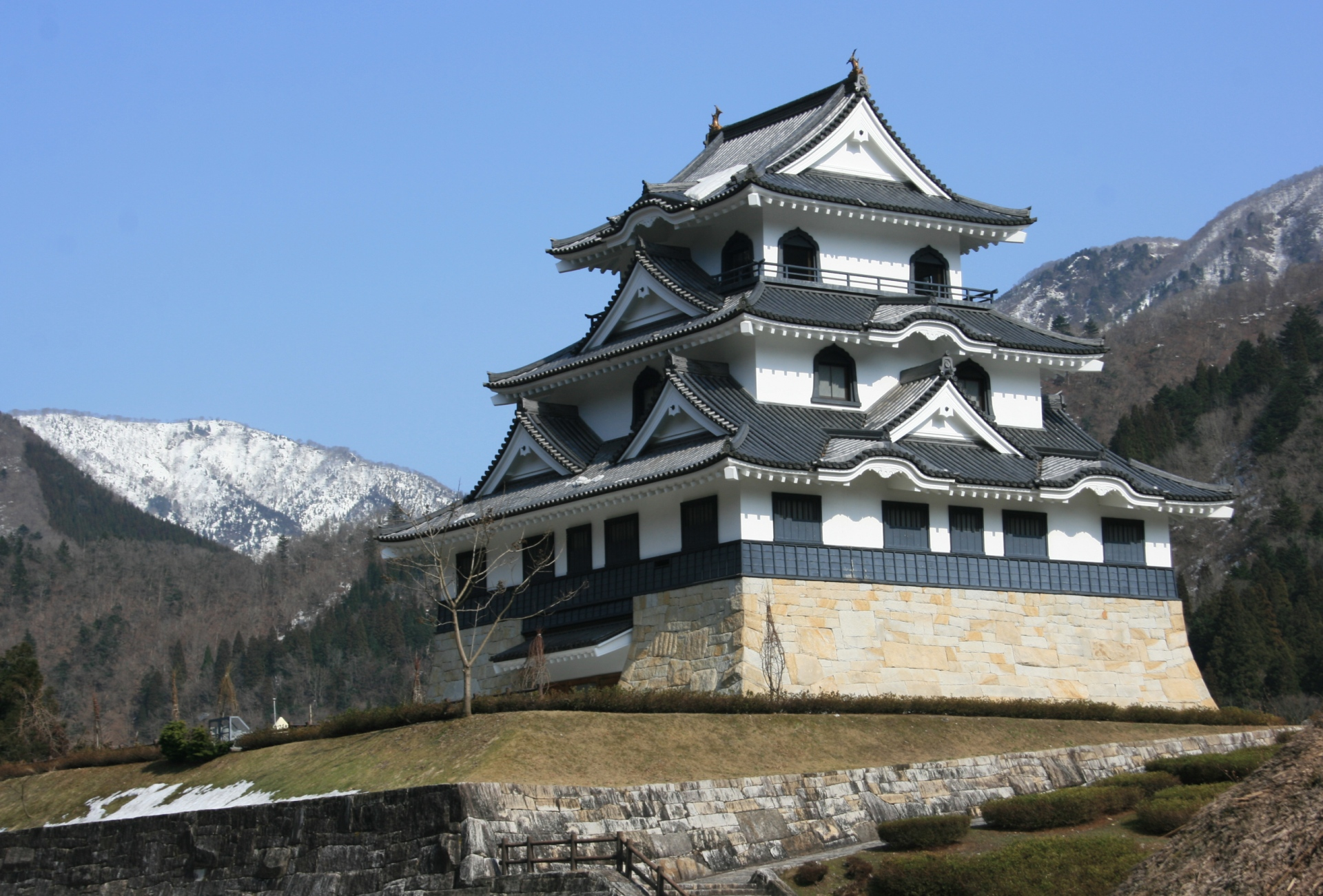 Fujihashi Castle, in Ibigawa, Gifu prefecture, Japan.